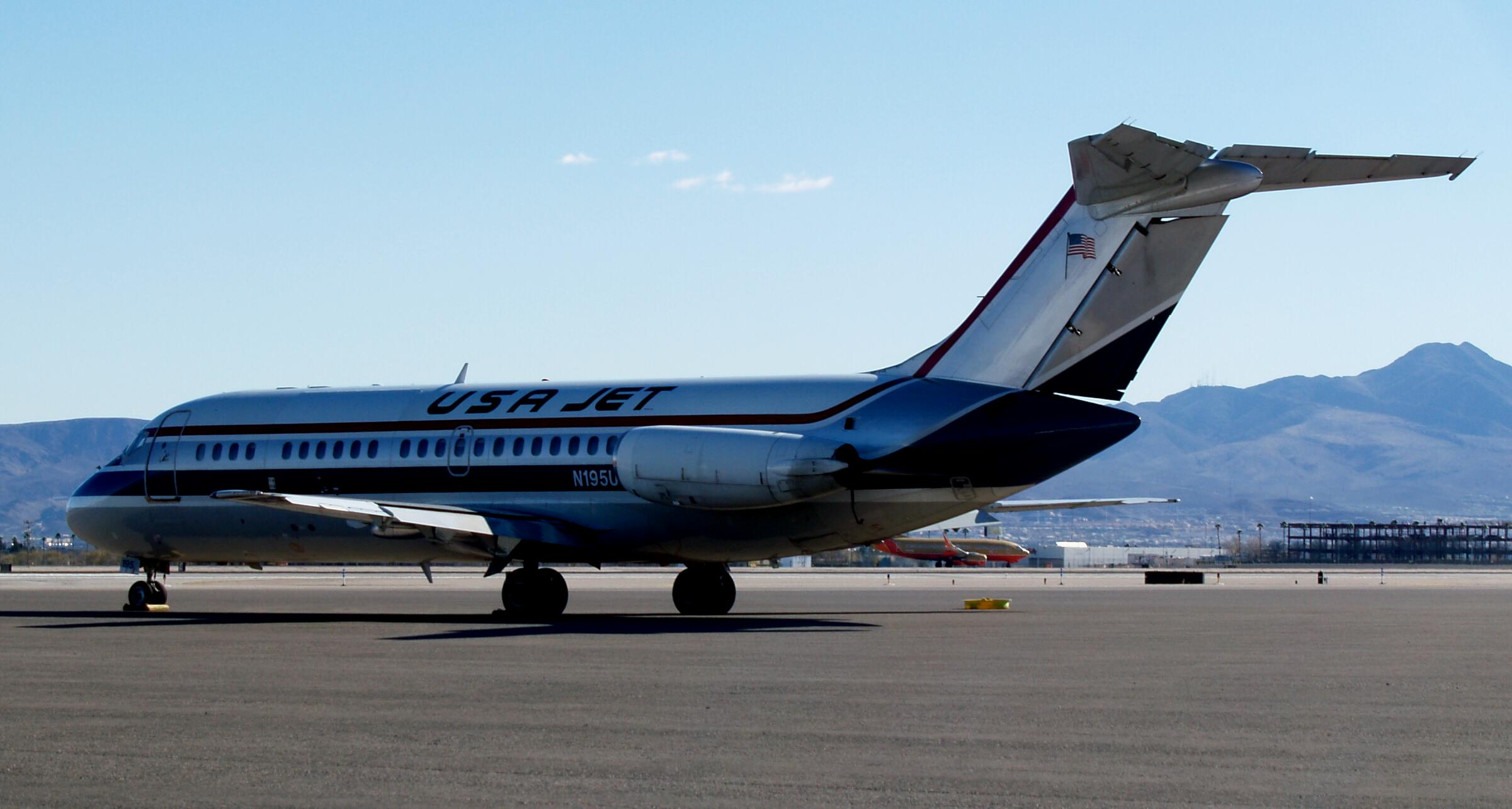 Classic retro livery ... or as we used to call them Barbie Dream Jets ... Check out the history: USA Jet 1994-12 N9352 Roadway Global Air 1993-11-15 N9352 Northwest Airlines 1986-10-01 N9352 Republic Airlines 1980-10-01 N9352 Hughes Airwest 1975-03-27 N8911 Continental Airlines 1967-10-28